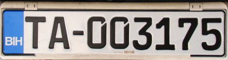 Vehicle registration plates of Bosnia and Herzegovina for Taxi cars